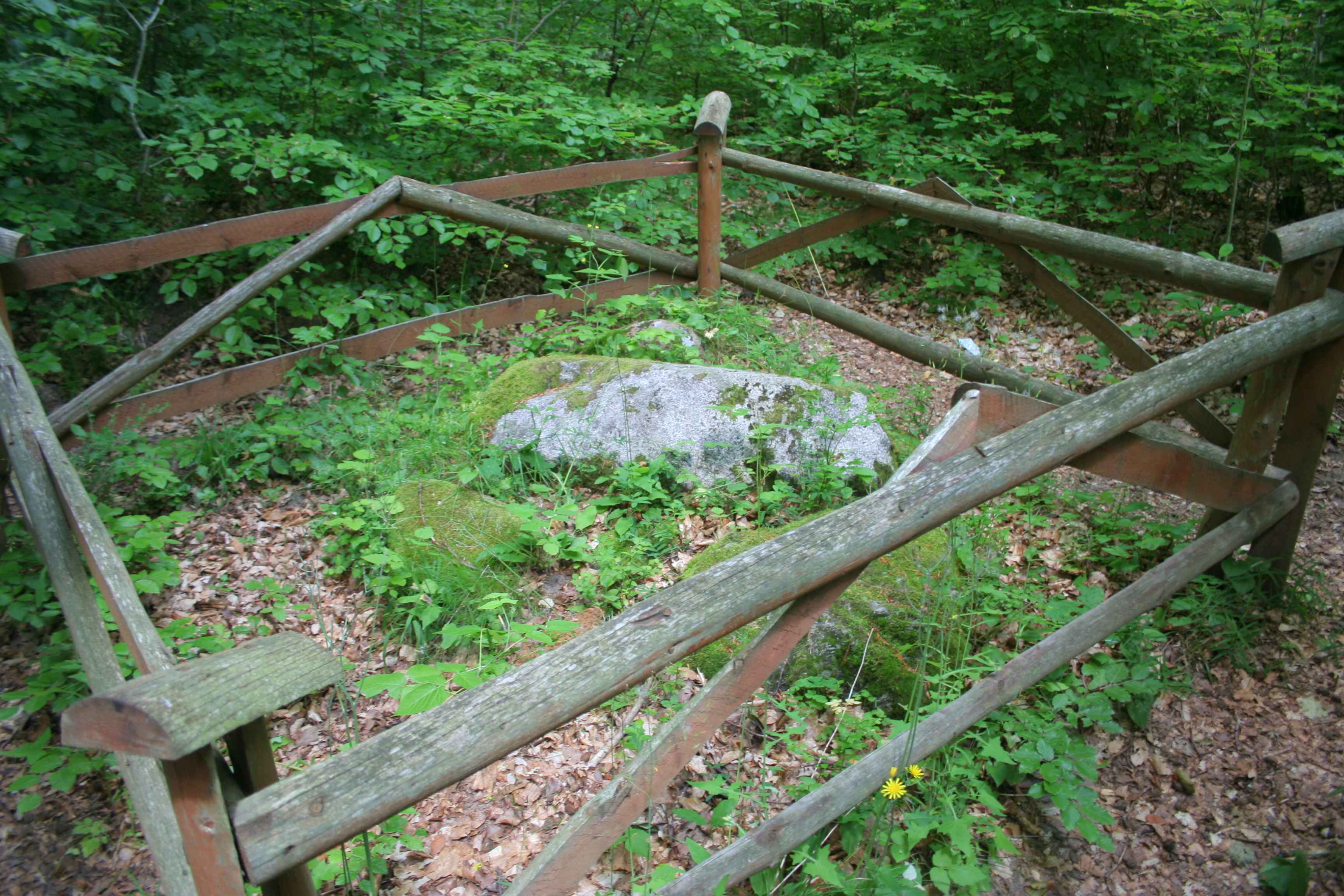 Glacial erratic "Boża Stopka" in Puszcza Darżlubska.